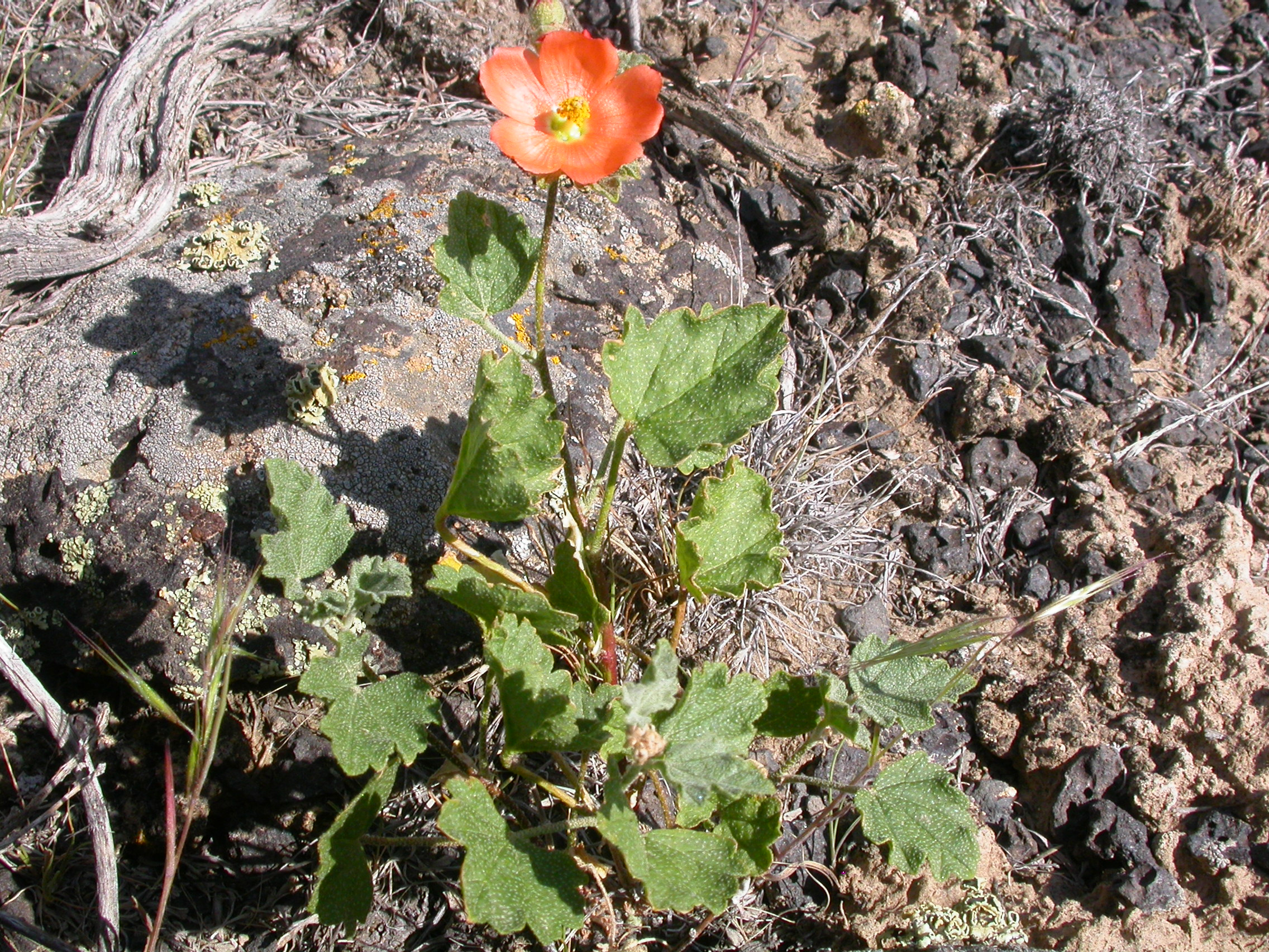 A few sporadic flowers with conspicuous orangish petals are produced early summer.